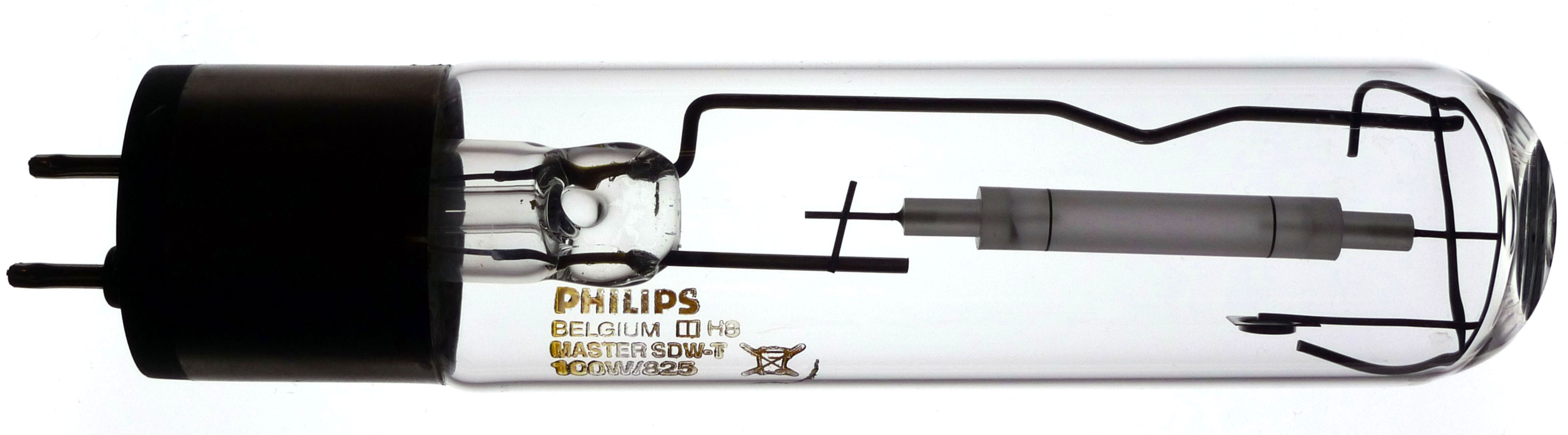 High pressure sodium lamp. Philips "MASTER SDW-T 100W/825 PG12-1". Socket PG12-1. Voltage 200V-250V. Photographed against a light-table for better visibility.